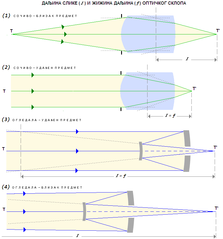 ЖИЖНА ДАЉИНА И ДАЉИНА СЛИКЕ